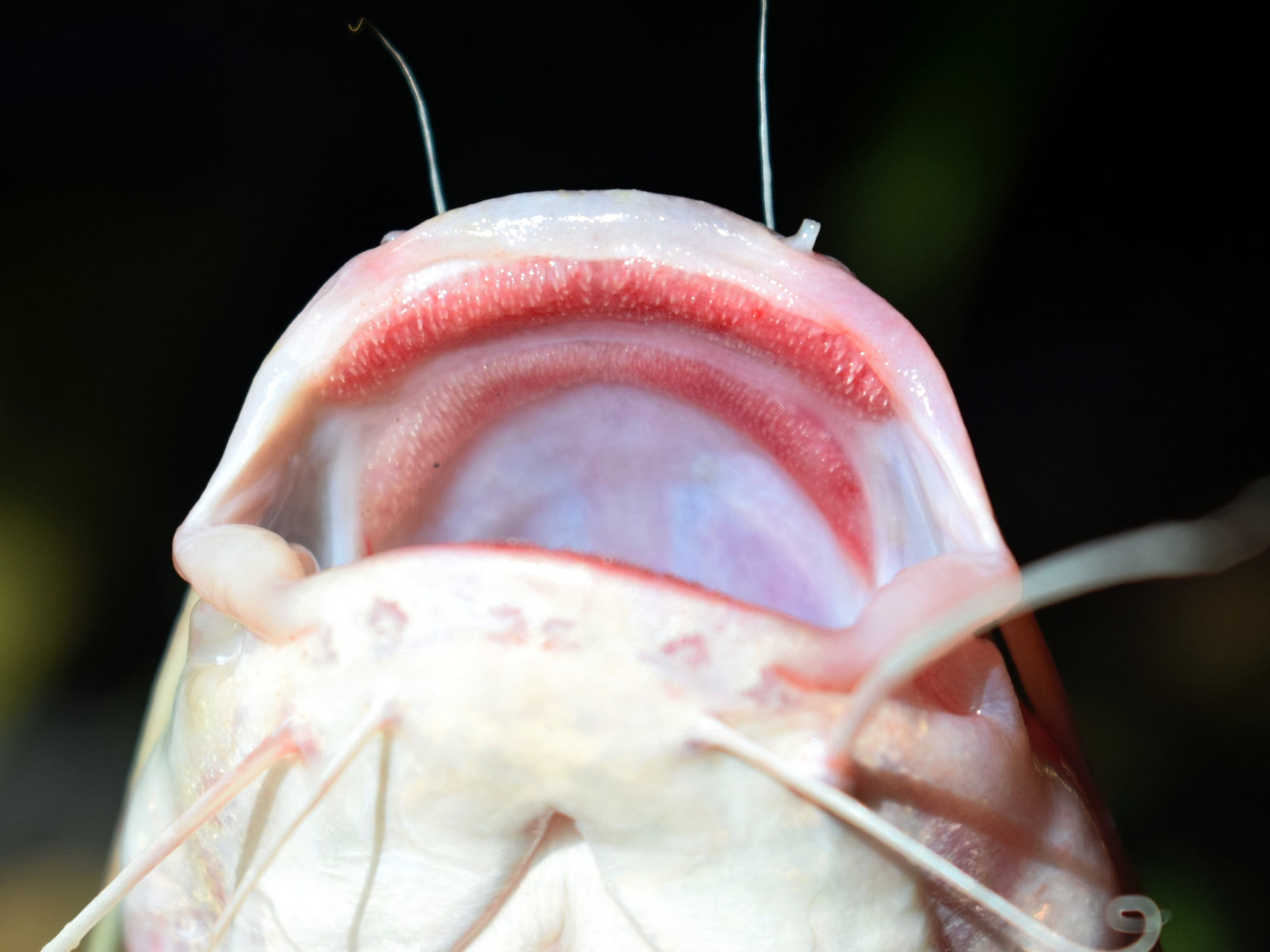 Hemibagrus nemurus, female, 294mm SL; from Cihideung, a tributary of Cisadane River, Bogor, West Java, Indonesia. Premaxillary and vomero-palatine teeth plates.